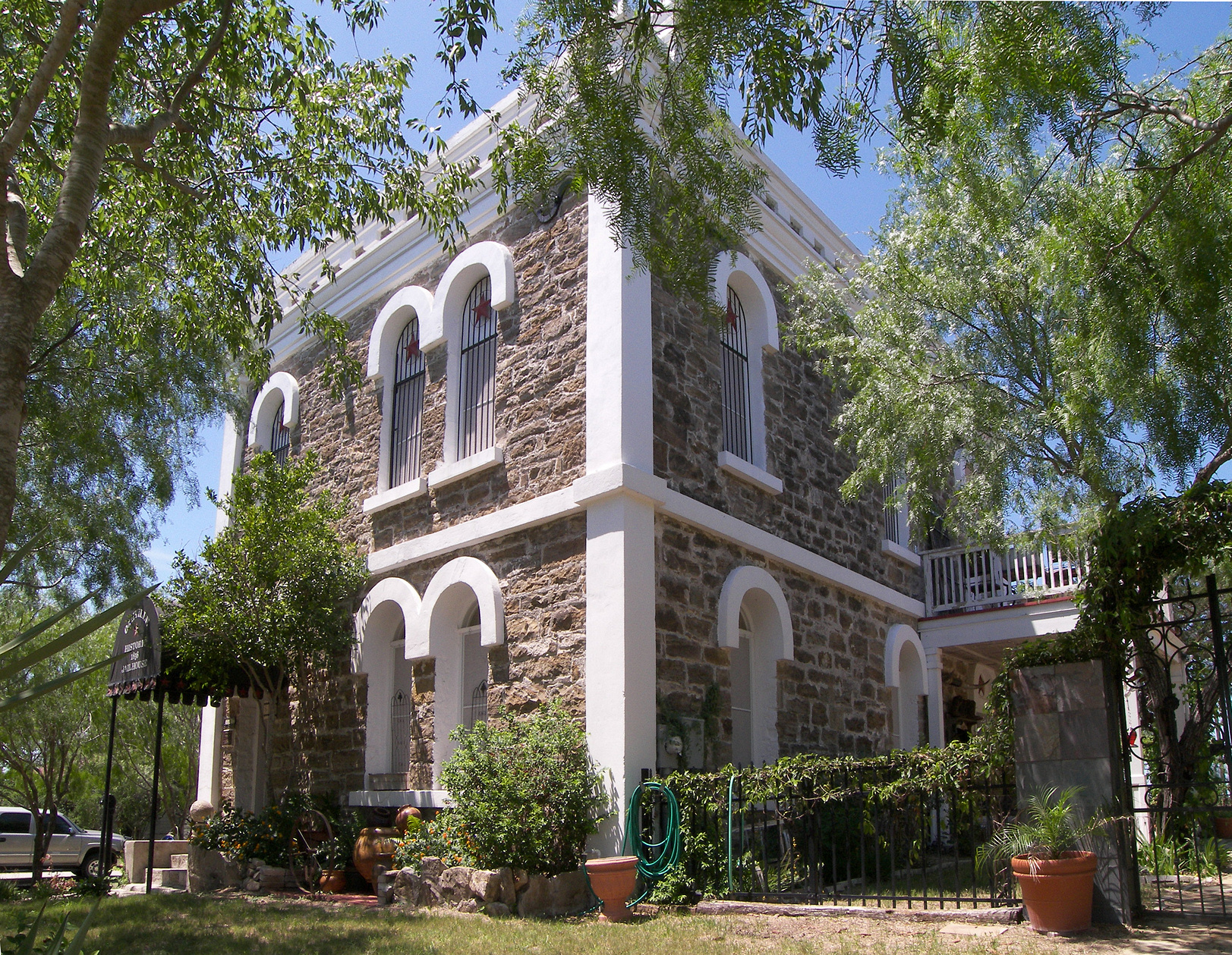 The old Live Oak County Jail located in Oakville, Texas, United States. The building was listed on the National Register of Historic Places on February 25, 2004.